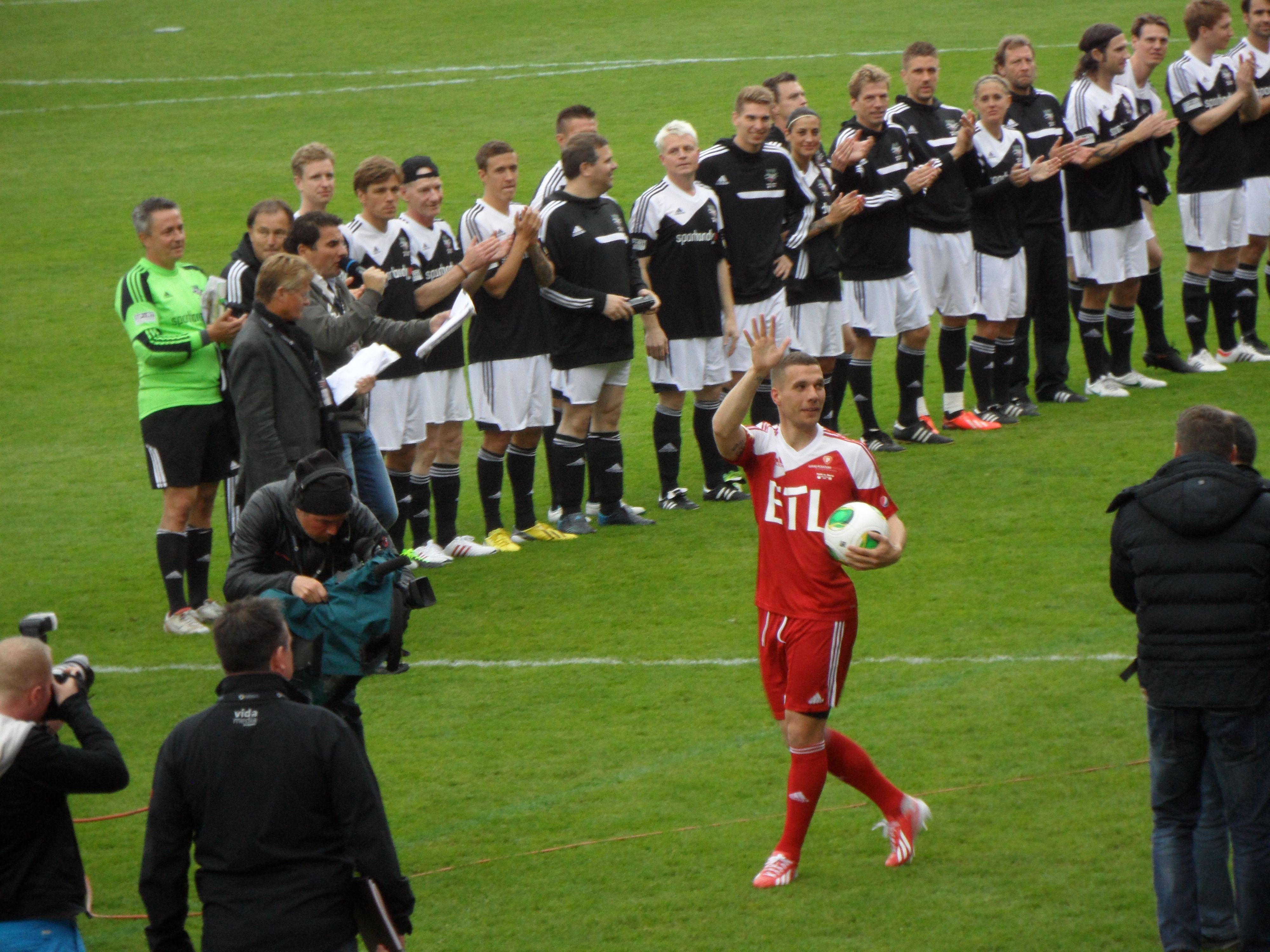 Podolski Charitygame Cologne